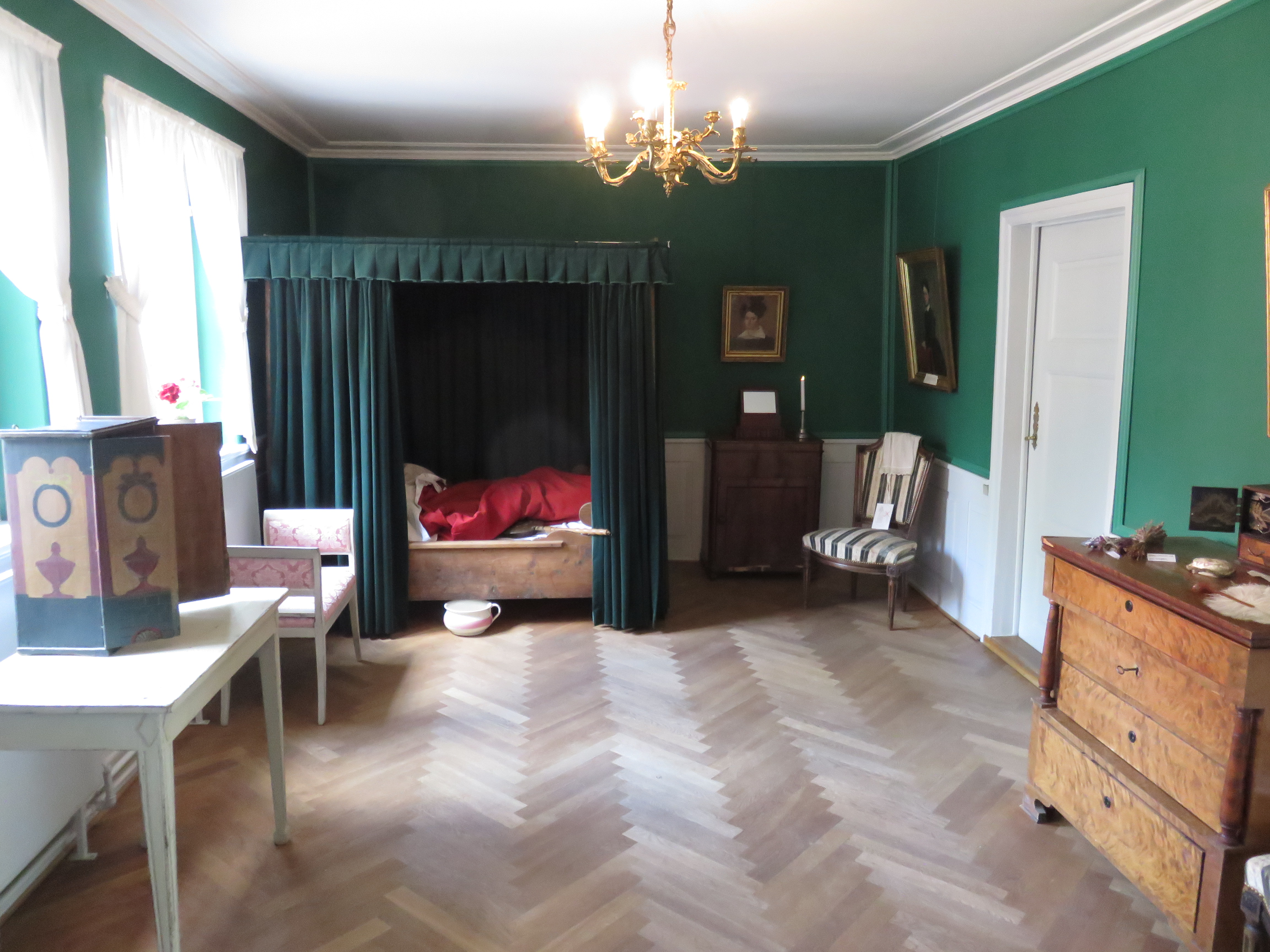 Shipping agent's private residence on the first floor of Skibsklarerergaarden (Shipping Agent's House) in Helsingør, Denmark in 2018